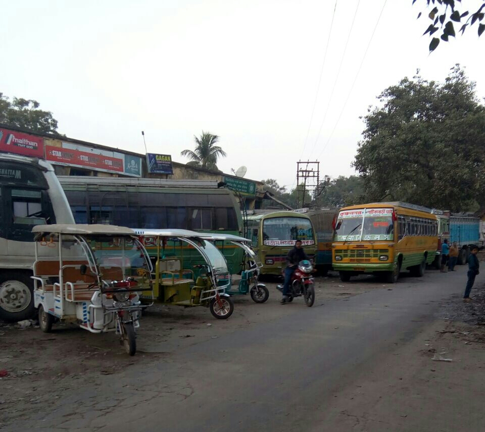 পলাশীপাড়া বাস টার্মিনাস। নদীয়া